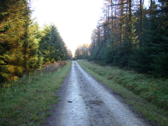 Forestry track in the middle of Dalby Forest